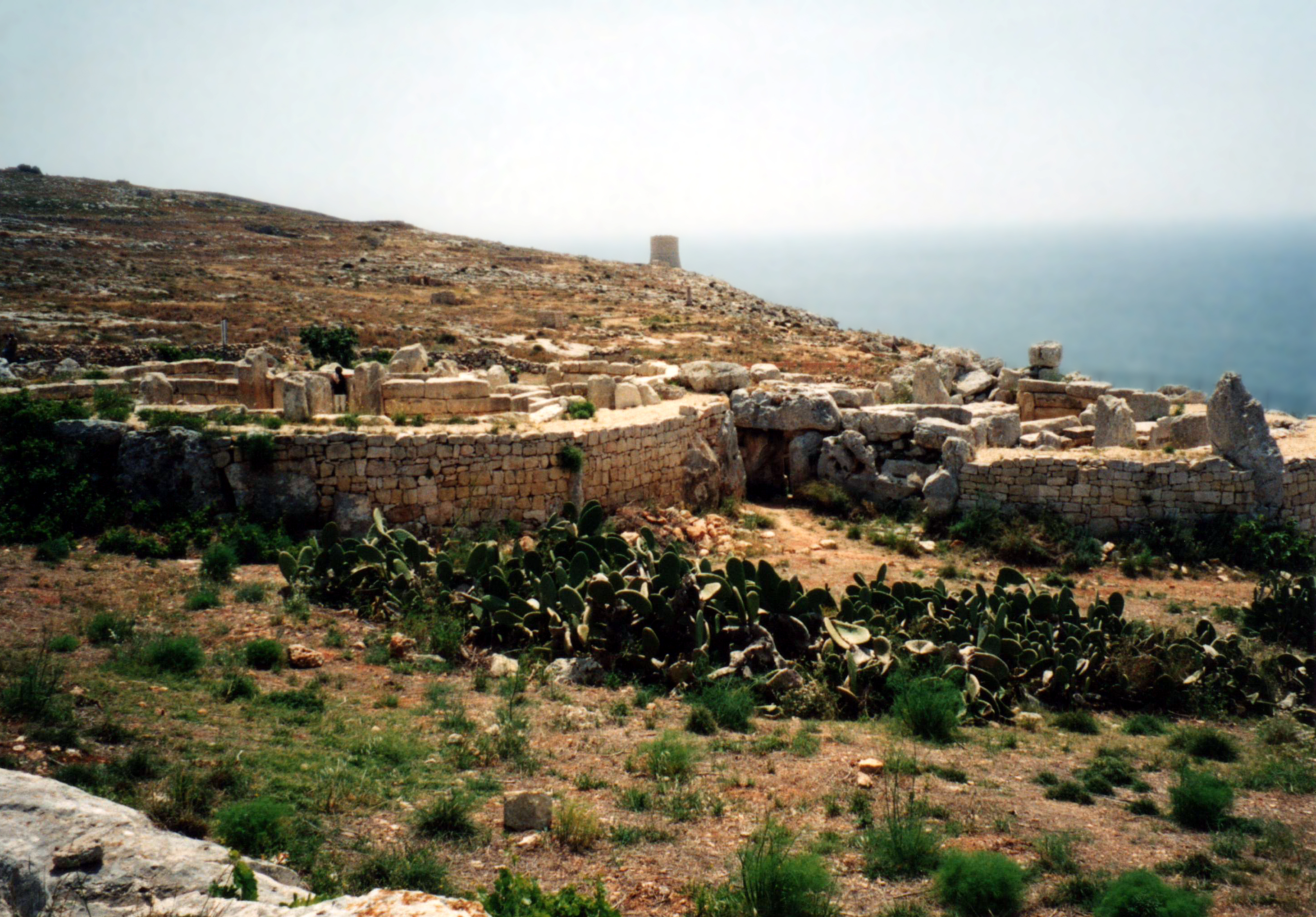 This view of the temples looks approximately south-east with the sea to the right.